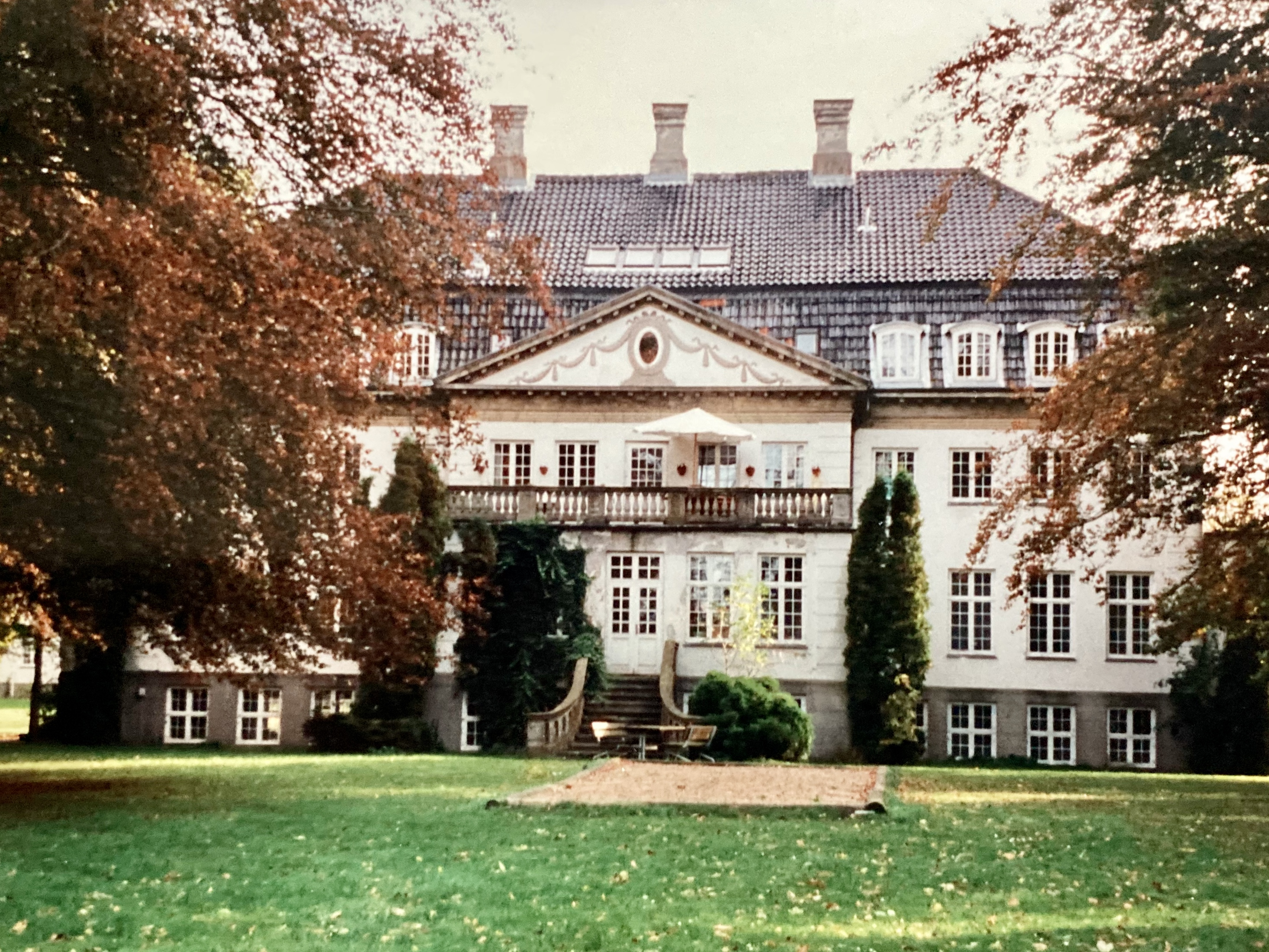 The Educational institution "Skovly" in Gammel Holte, Denmark was part of the greater christian institution, "Magdalene-hjemmene".